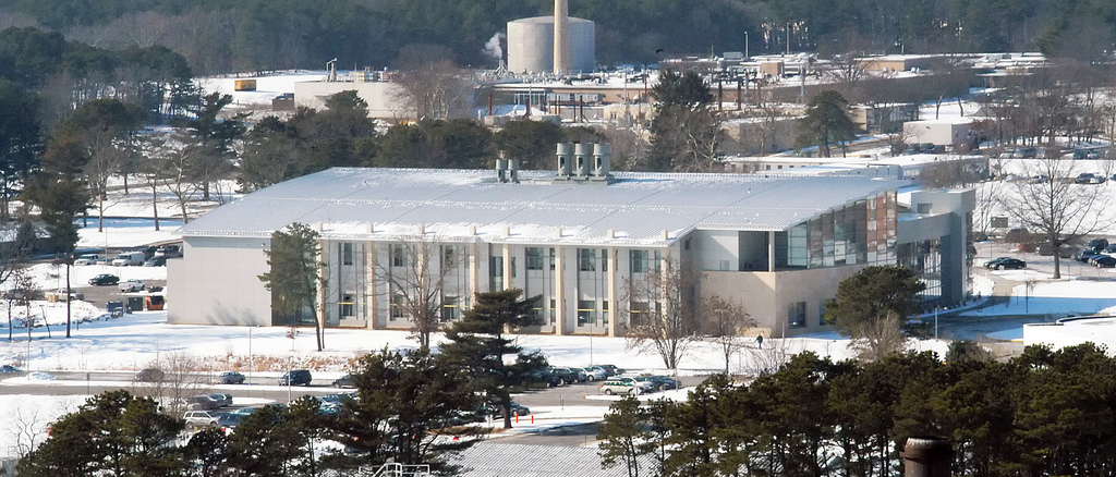 Center for Functional Nanomaterials (CFN) at BNL provides state-of-the-art capabilities for the fabrication and study of nanomaterials, with an emphasis on atomic-level tailoring to achieve desired properties and functions. The CFN is a science-based user facility, simultaneously developing strong scientific programs while offering broad access to its capabilities and collaboration through an active user program.